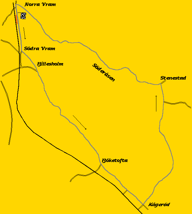 Trackmap Swedish Grand Prix 1933/ Vrams GP